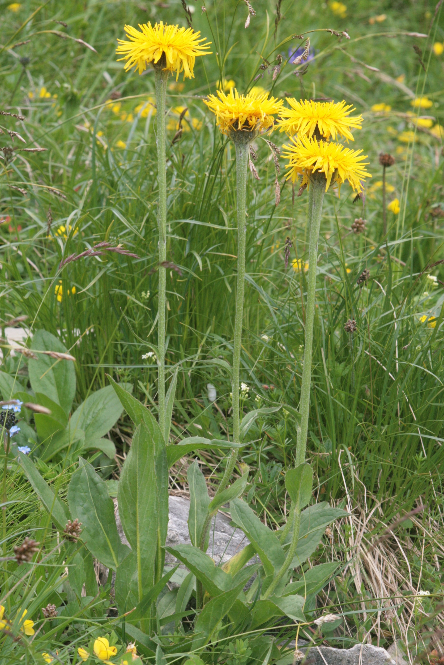 Crepis pontana